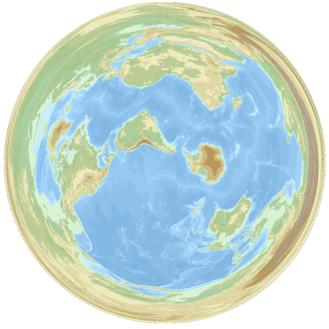 The topograpic map of the World Ocean in azimuthal equidistant projection. The center of map (47.2S 76.417W) is the antipodes of Ürümqi.